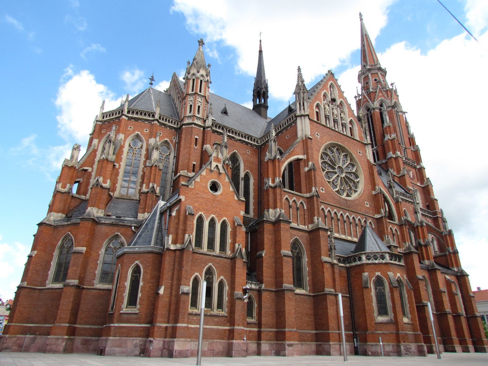 Osijek contcathedral built in 1898. on the location of the older church.It is 95 meters tall and its the tallest building outside of Zagreb.